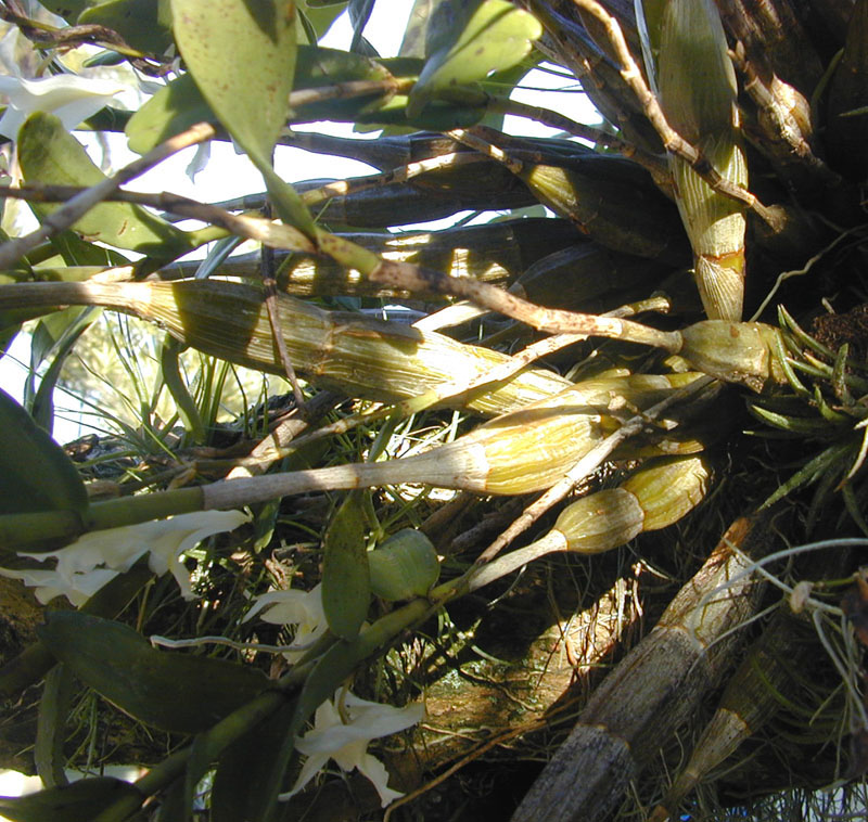 Orchid pseudobulbs in an epiphyte assemblage with bromeliads, photographed in a Hawaiian garden by Eric Guinther and released under the GNU Free Documentation License. The flower of this orchid (Dendrobium crumenatum)is shown in this image. Immagine:Pseudobulbo orchidea epifita.jpg